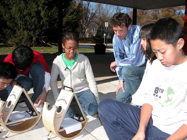 Students at Parkland Aero Technology Magnet School studying sunspots. (Caption From Original)Research SOHO scientist Daniel Mueller from the European Space Agency talks to students of Parkland Magnet School in Rockville, MD.